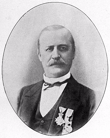 Portrait photograph of August Blanck, German physician and author in Schwerin.